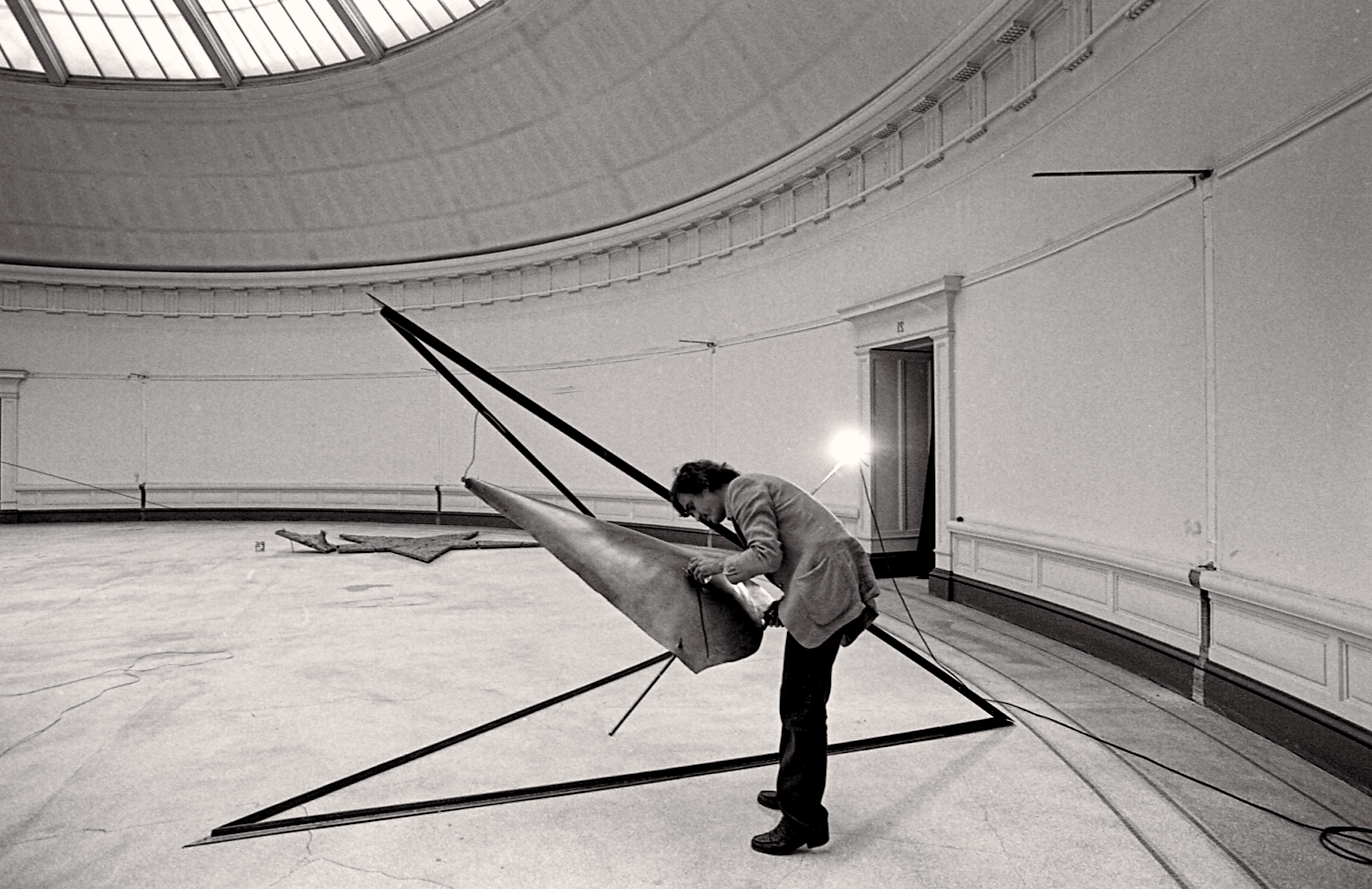 Gilberto Zorio, Italian artist (here in Ghent - Belgium 1980)